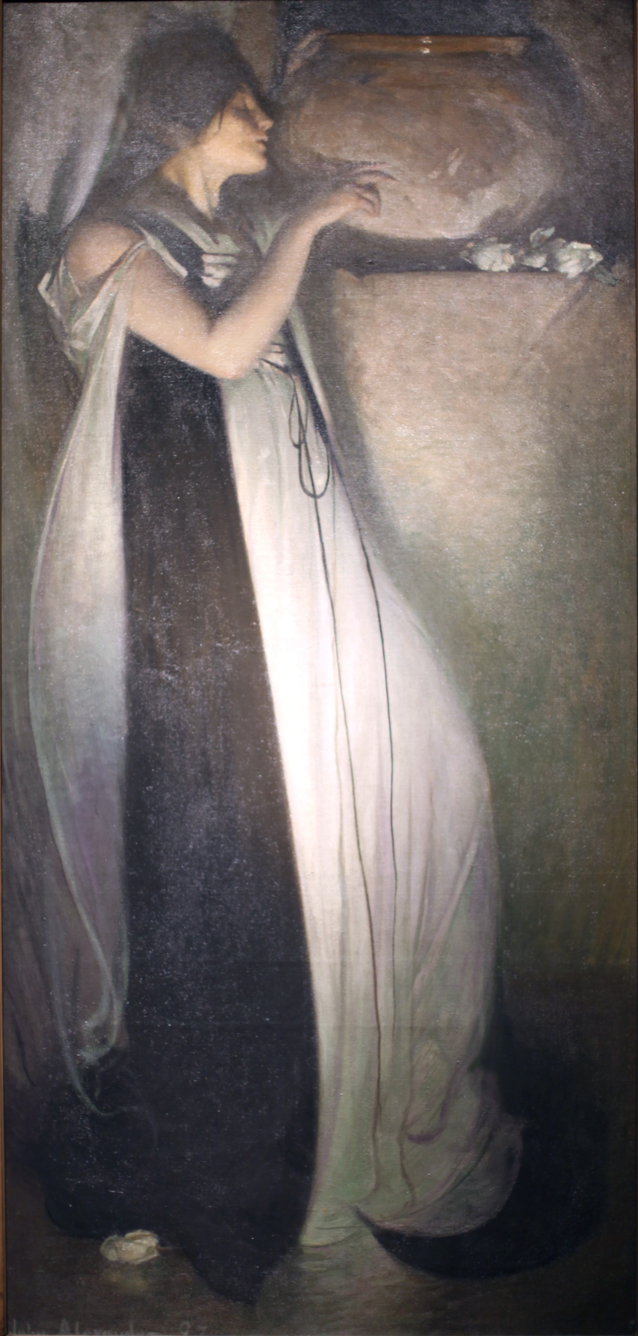 Painting of Isabella, tragic heroine of the John Keats poem, with her pot of basil in which the head of her murdered lover is buried.